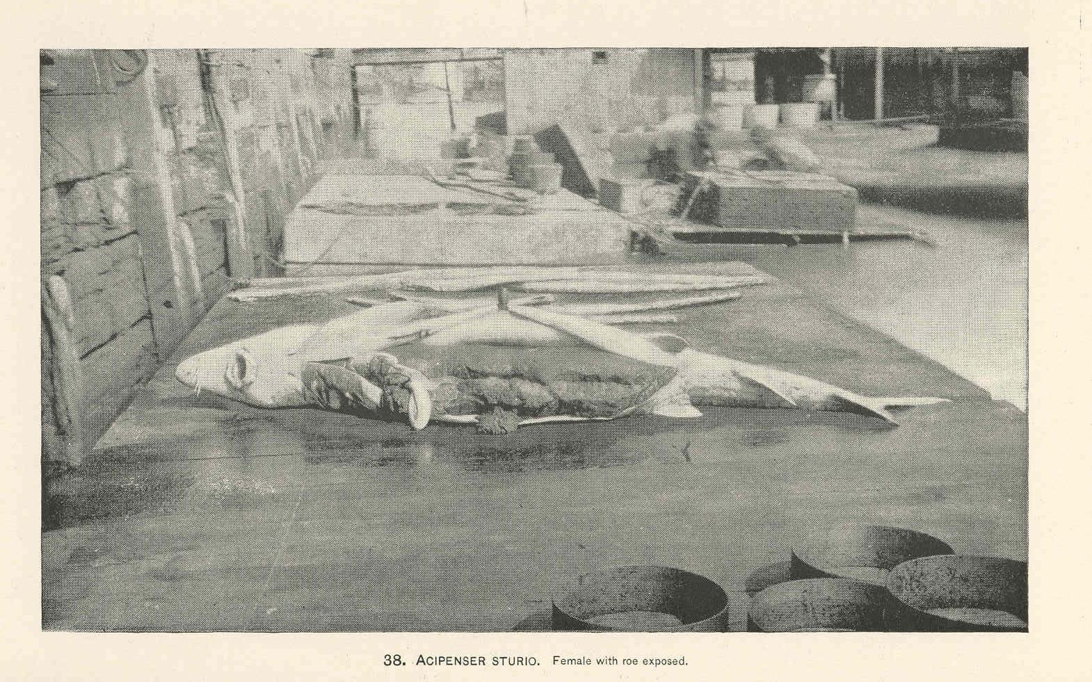 Acipenser sturio. Female with roe exposed Subject: Atlantic sturgeon, Acipenseridae Tag: Fish